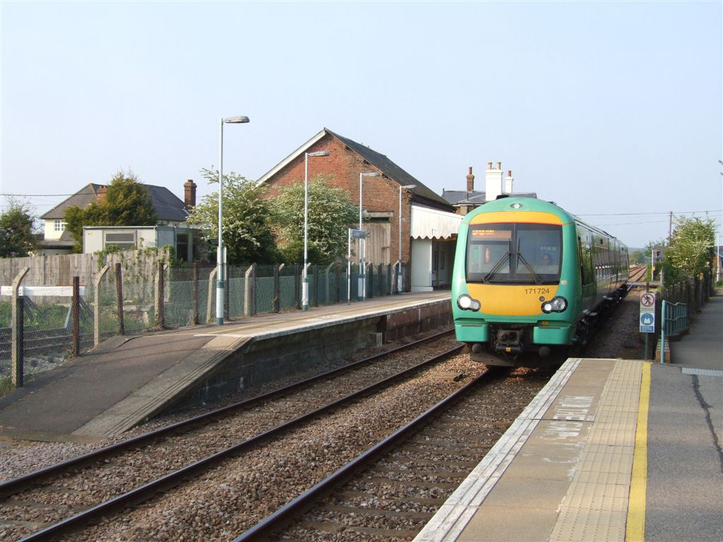 171727 at Appledore railway station.